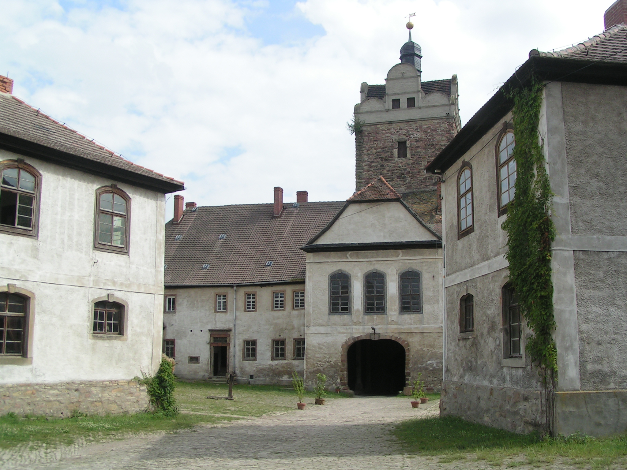 Inside castle Allstedt, Germany, Saxony-Anhalt